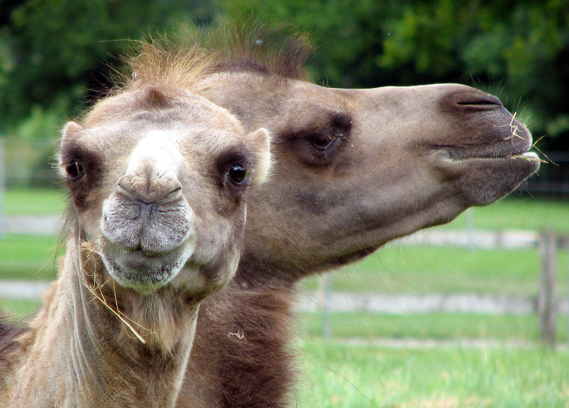 Two Bactrian camels at the Cotswold Wildlife Park, Burford, Oxfordshire, England. Photographed by Adrian Pingstone in June 2006 and placed in the public domain.